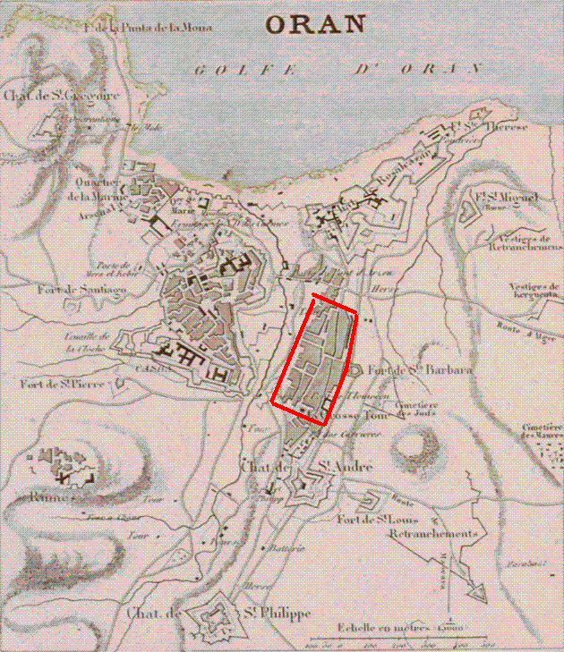 Plan de la ville d'Oran en 1840. Surlignage en rouge du quartier juif accordé en 1792 par le bey Mohamed el Kebir.